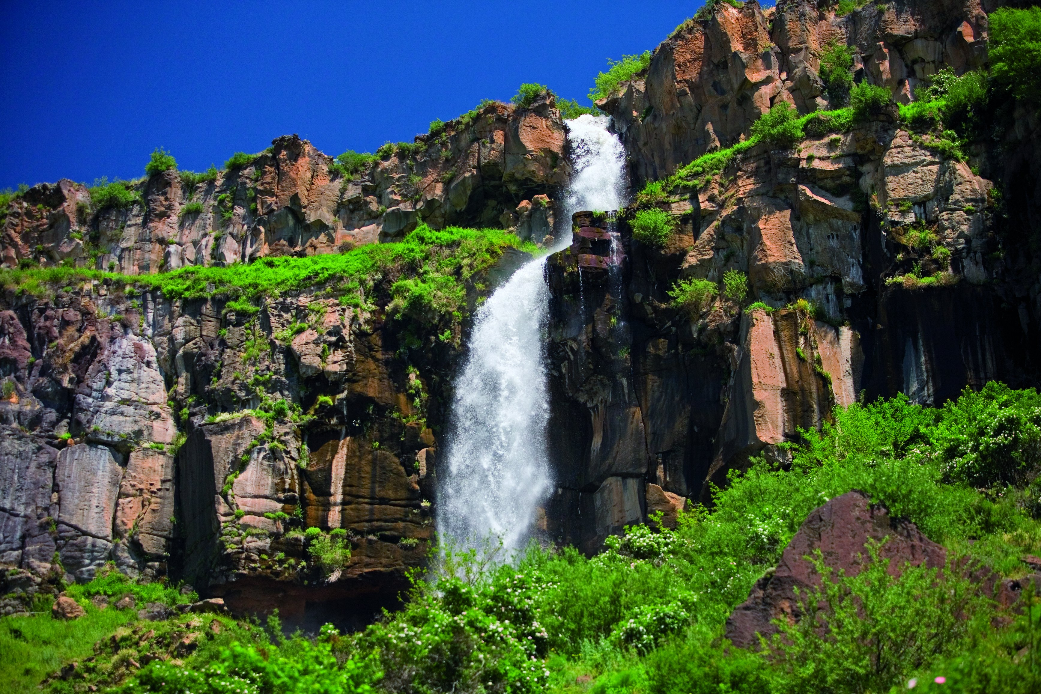 Kasakh Waterfall